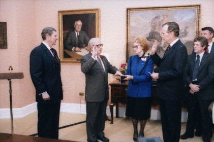 President Reagan, George Shultz, John Poindexter (3-11) Meeting with George Shultz and John Poindexter President Reagan, Otis Bowen, George Bush, Mrs. Bowen (12-23) Swearing In of Otis Bowen as new Secretary of Health and Human Services